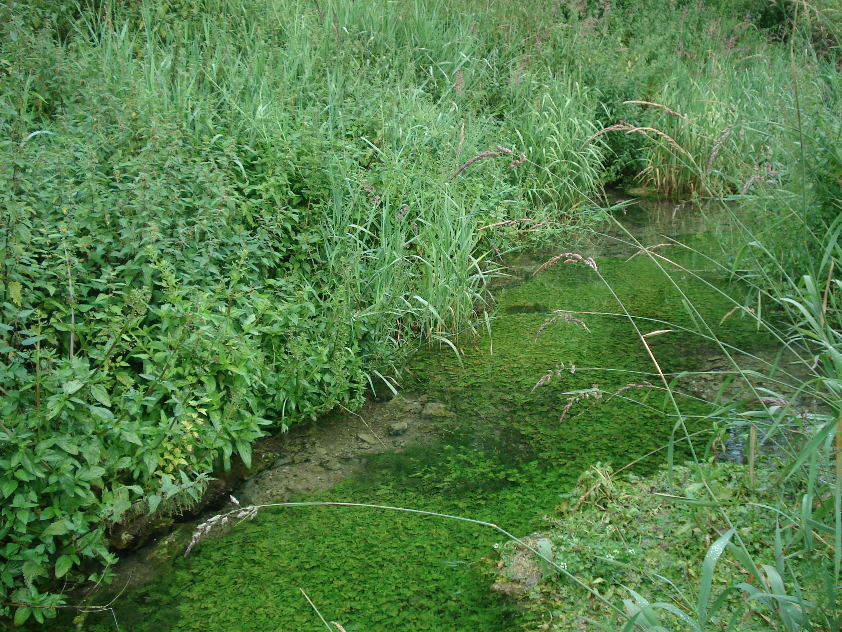 karst springs of the Seckach, Swabian Alb.